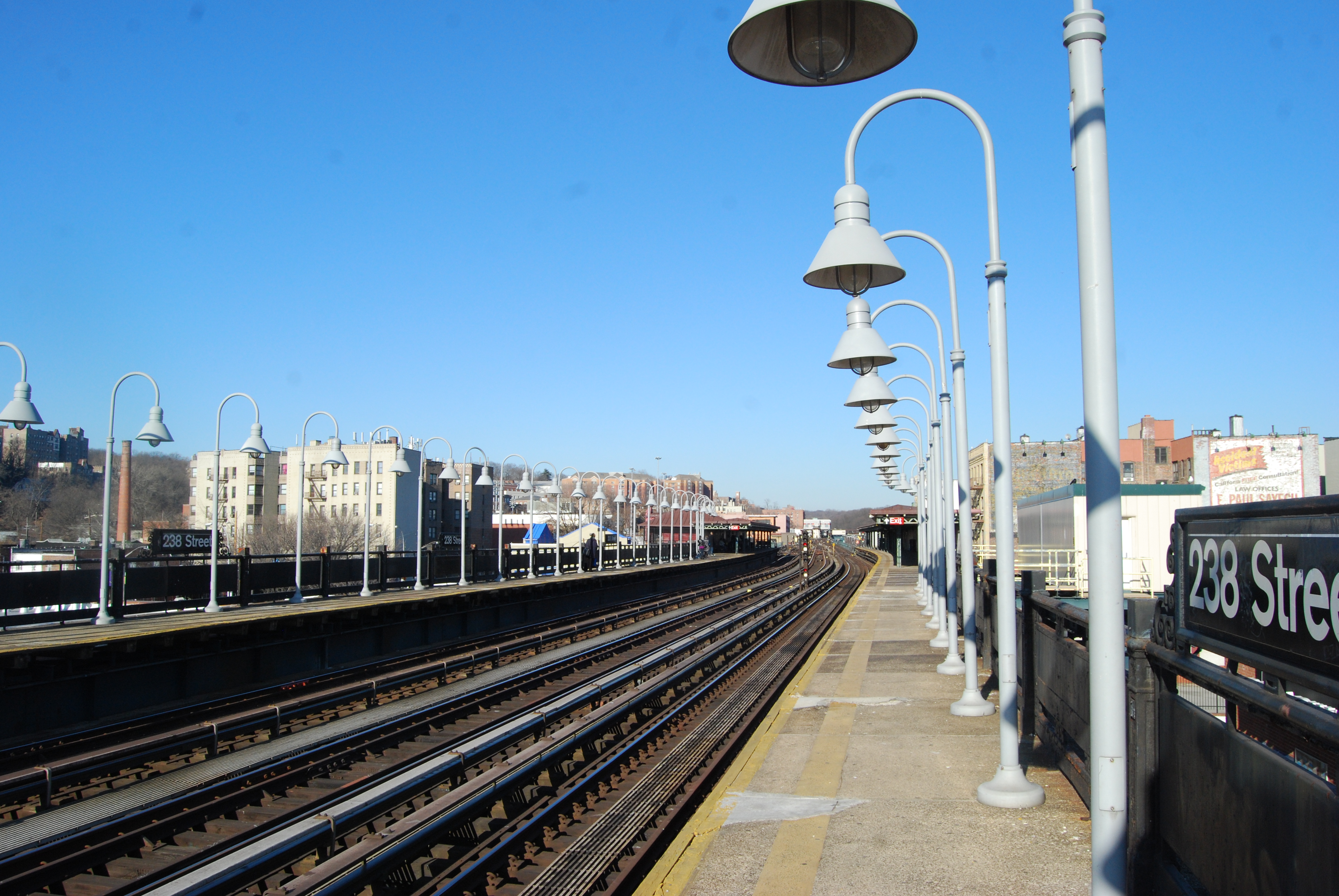 238th Street (IRT Broadway – Seventh Avenue Line)